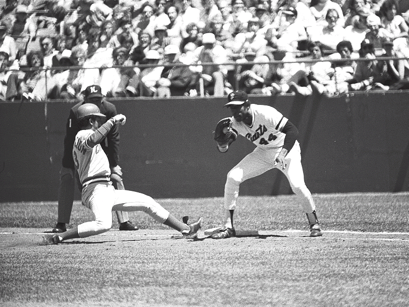 Willie McCovey attempts to tag Cincinnati Reds' shortstop Dave Concepcion out at first base